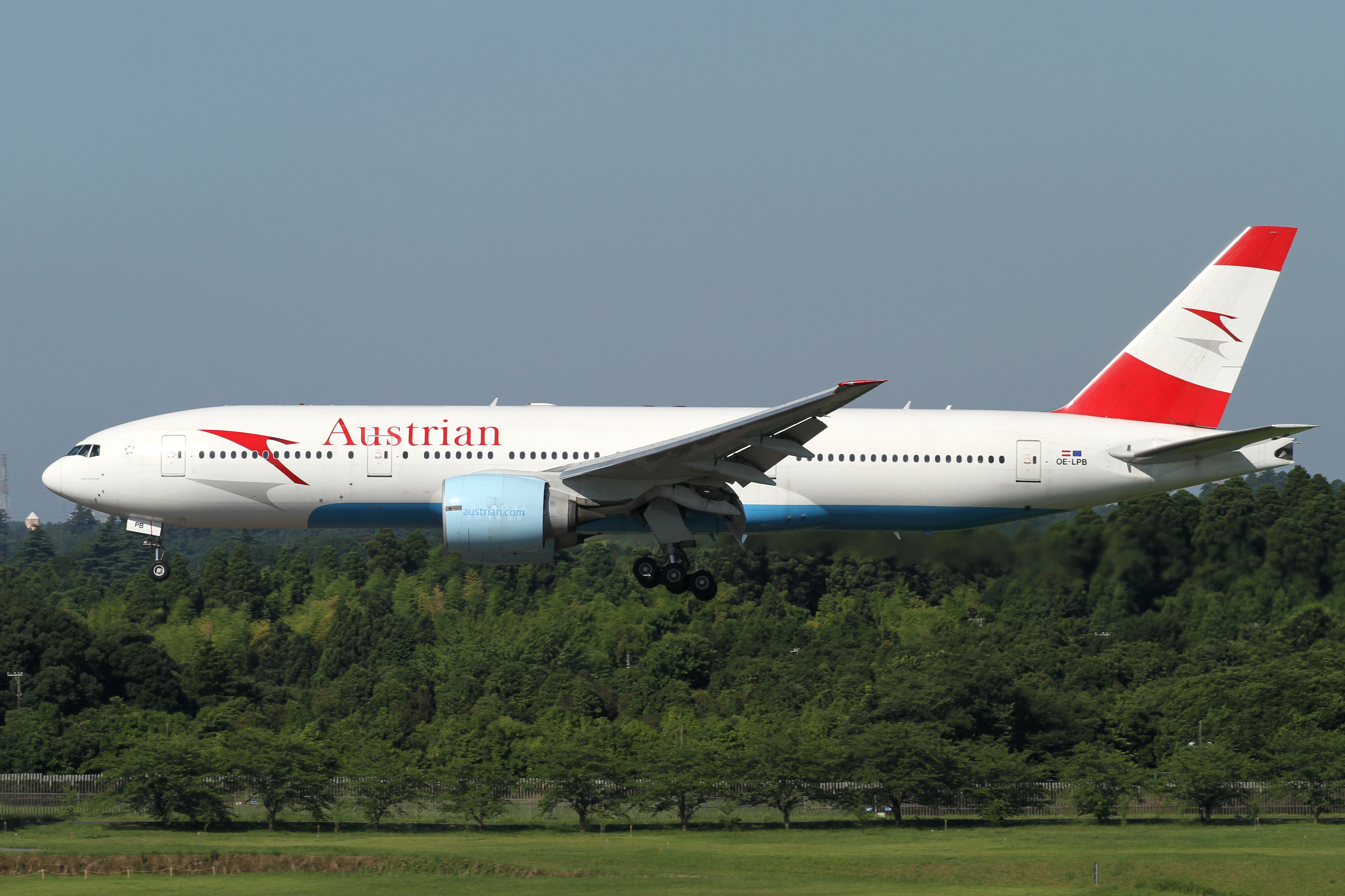 Narita International Airport, Boeing 777-2Z9/ER, c/n:28699, Austian Airlines